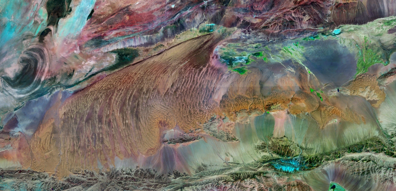 Satellite Image of the "Big Ear" in Lop Nur (left) and of the Kumtag Desert (middle) and Astintag (right) in Xinjiang, China.